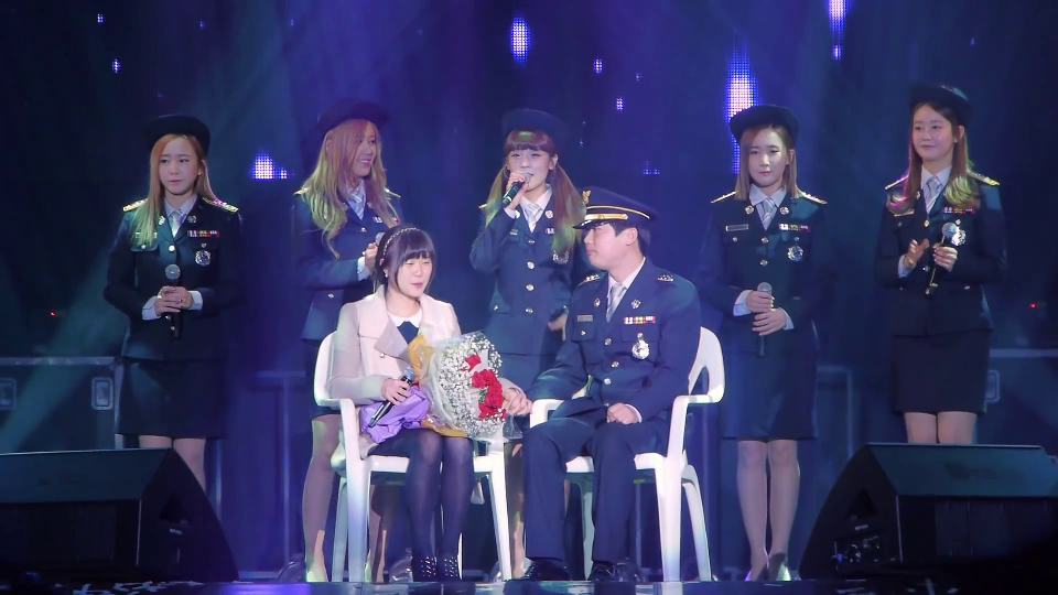 Crayon Pop singing "I'm Beautiful" to a firefighter and his fiancée at a charity concert in Suwon, South Korea.